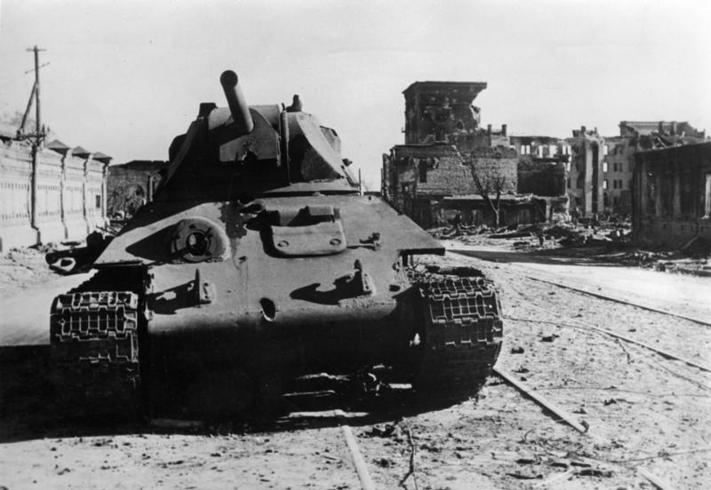 Witnesses of the heavy fighting around Stalingrad. Destroyed tanks and ruins line the streets. But behind the walls, the Enemy hides to break out dastardly.